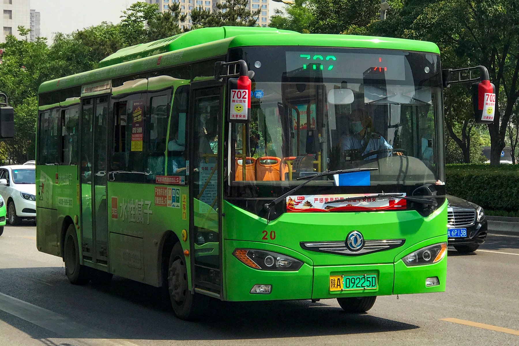 A Dongfeng battery-powered bus on Xi'an Bus Route 702